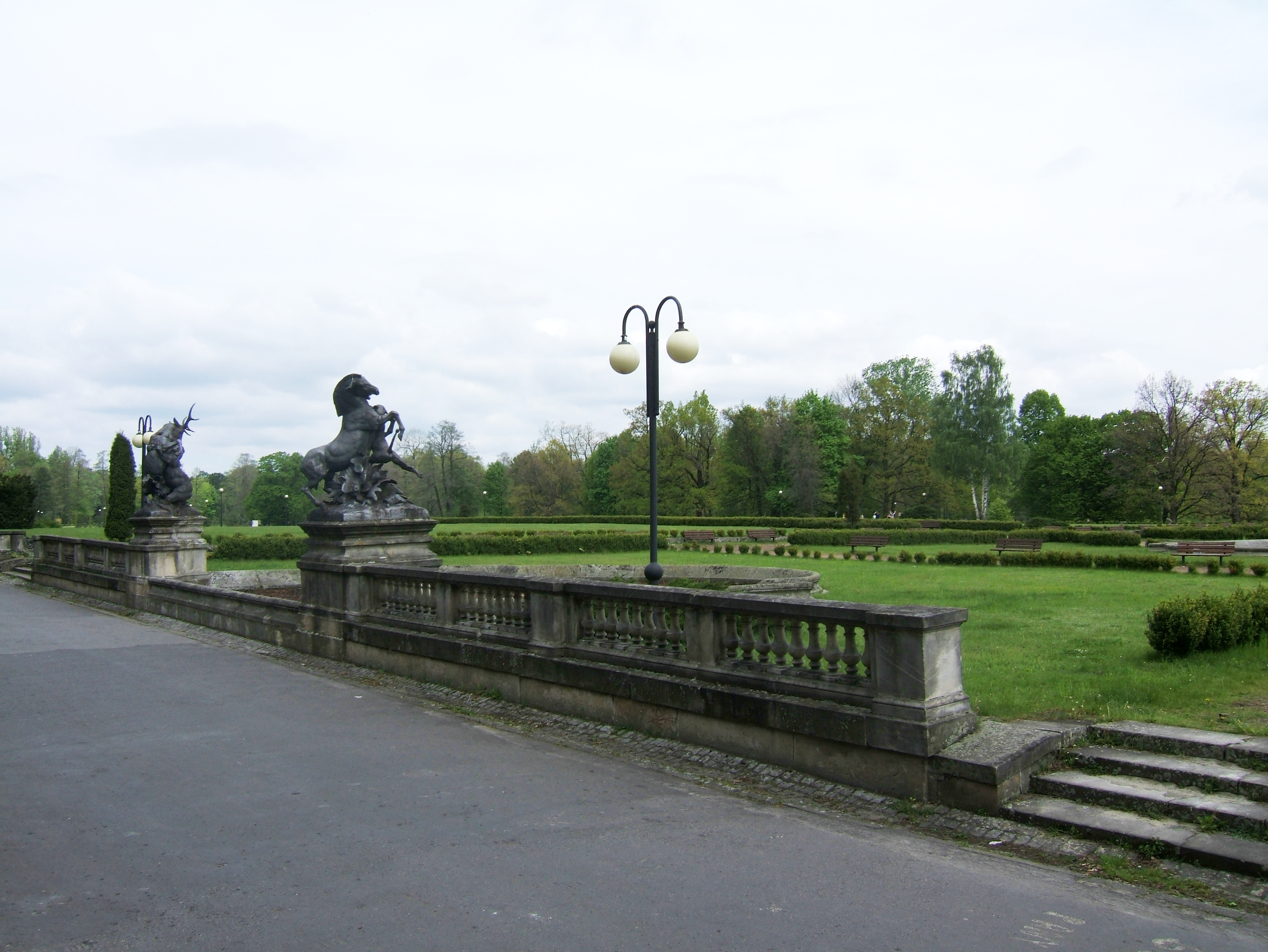 Before 1961 you would have seen the 19th century palace of the Donnersmarck family in Świerklaniec in front of you!